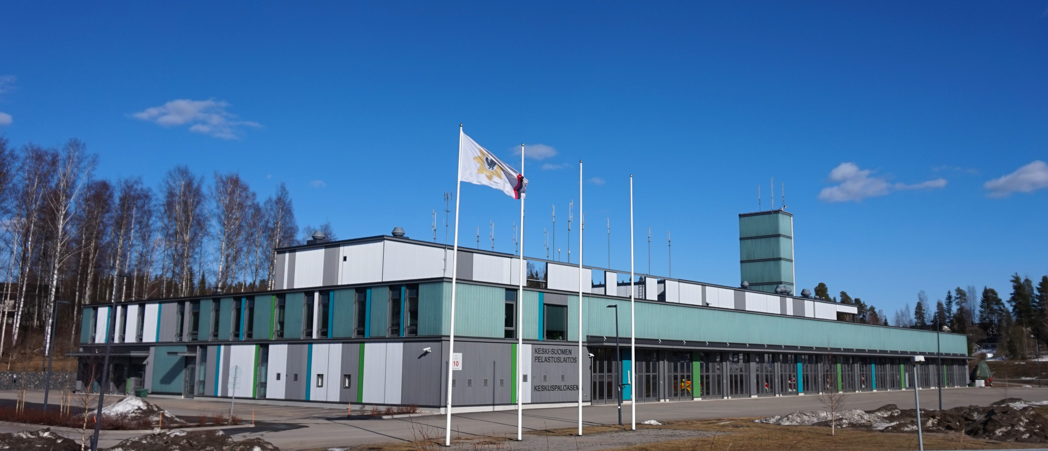 Centre fire station of Jyväskylä.This photograph was taken with a Sony ILCE-5000